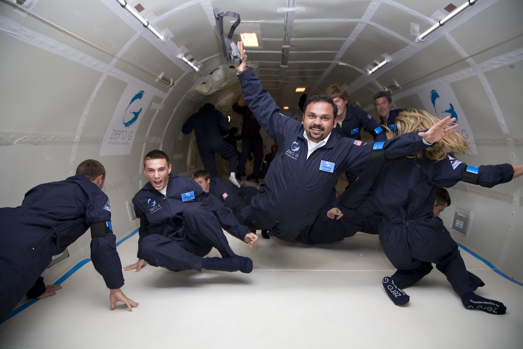 Santhosh George Kulangara during zero gravity training at Kennedy Space center, Florida, USA